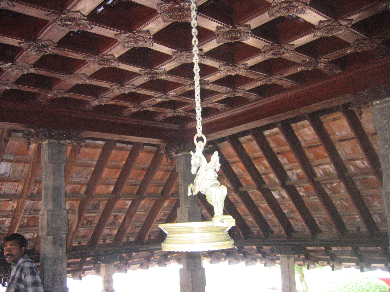 Thooku-vilakku (hanging lamp) and the detailed wood carving of the ceiling. Each lotus carved in the ceiling is unique. Unlike other hanging lamps, this one can be pointed towards a direction and would stay at that postition till altered, thus enabling focused lighting